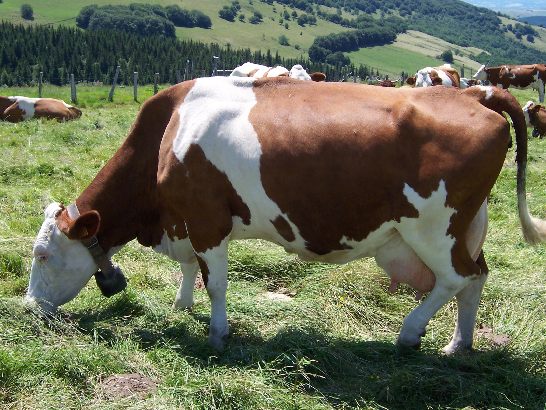 Montbeliard cattle breed cow grazing in the montains of Cantal (France)